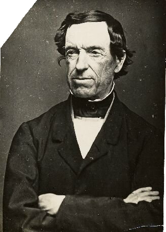 A photograph of Scoto-Canadian trapper, explorer, and author John McLean c. 1860. Note that the WCMA misidentifies McLean in this photo's information as a minister, but see the information in the other copies of the same photo; the information with this photo tying it to Hugh Templin, the journalist responsible for the historic plaque outside McLean's former residence in Guelph; the information connecting another copy with John McLean Sr (John McLean Jr was born c. 1837 and would've been a young man in 1860); and the photo's use on the second page of this article. The WCMA notices are generally misdated or given the date of the photo's republication in other works, but see the information for one of the (damaged) original prints still held by the archive.